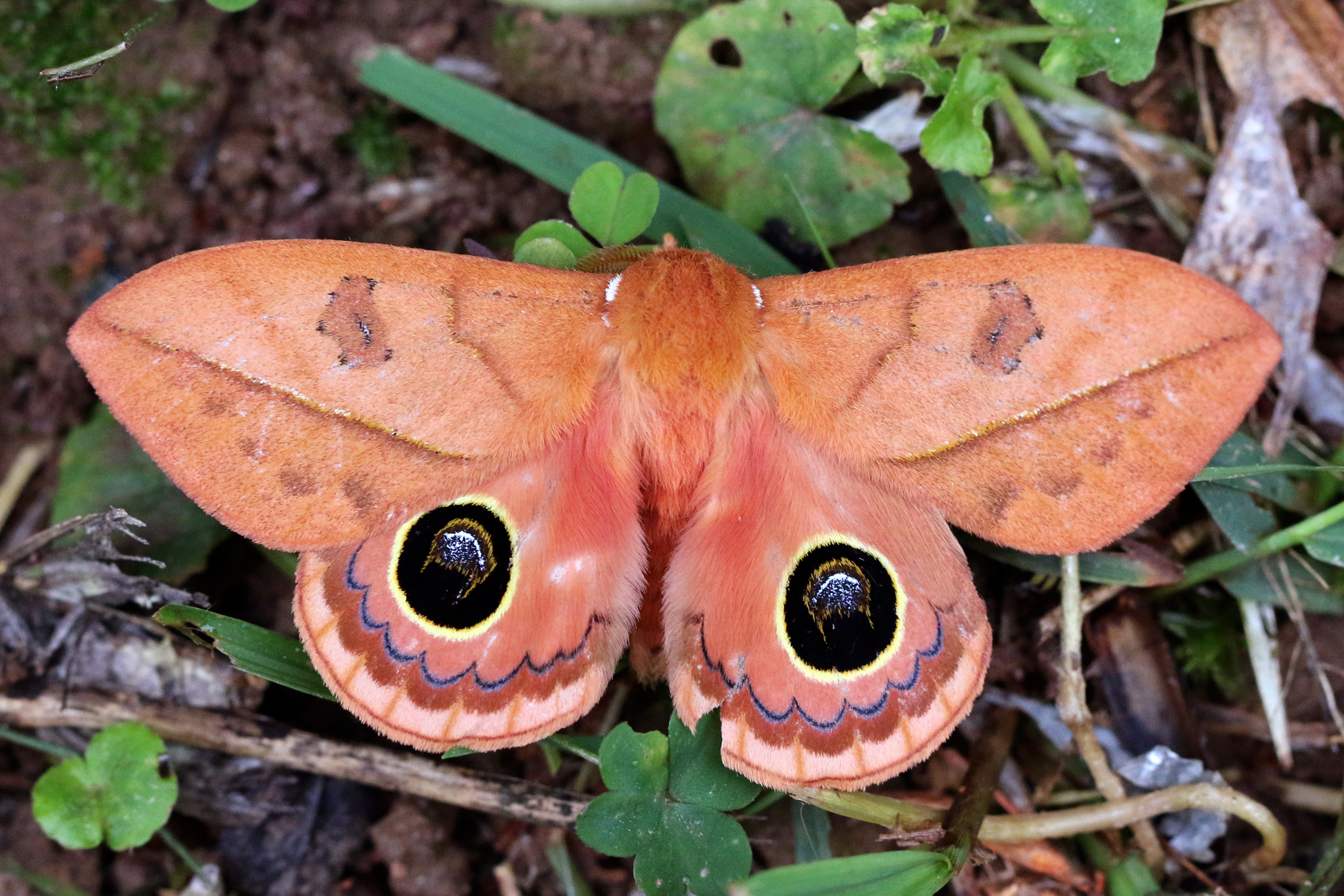 Pseudautomeris moth (Pseudautomeris luteata), Brazil